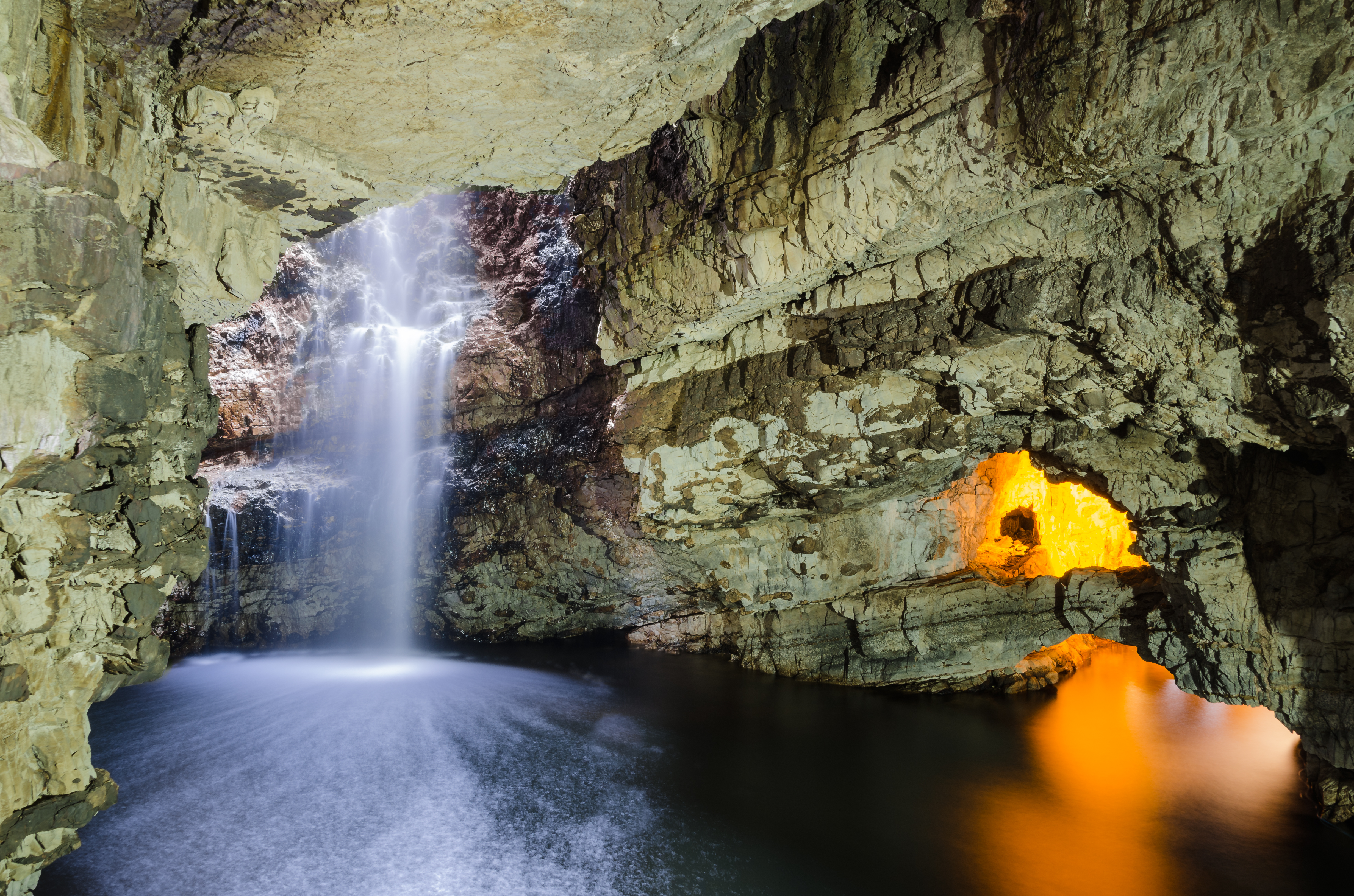 second chamber of the Smoo Cave, Durness in Sutherland, Highland, Scotland